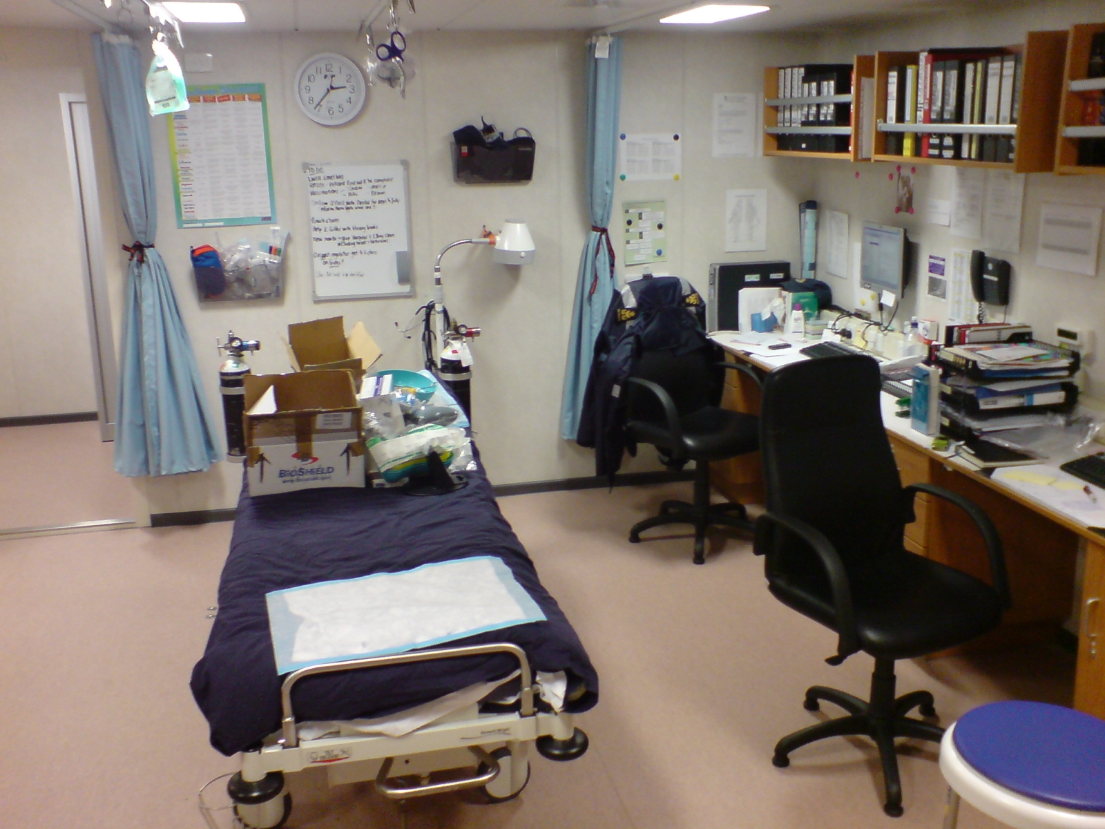 The consultation room of HMNZS Canterbury's infirmary.